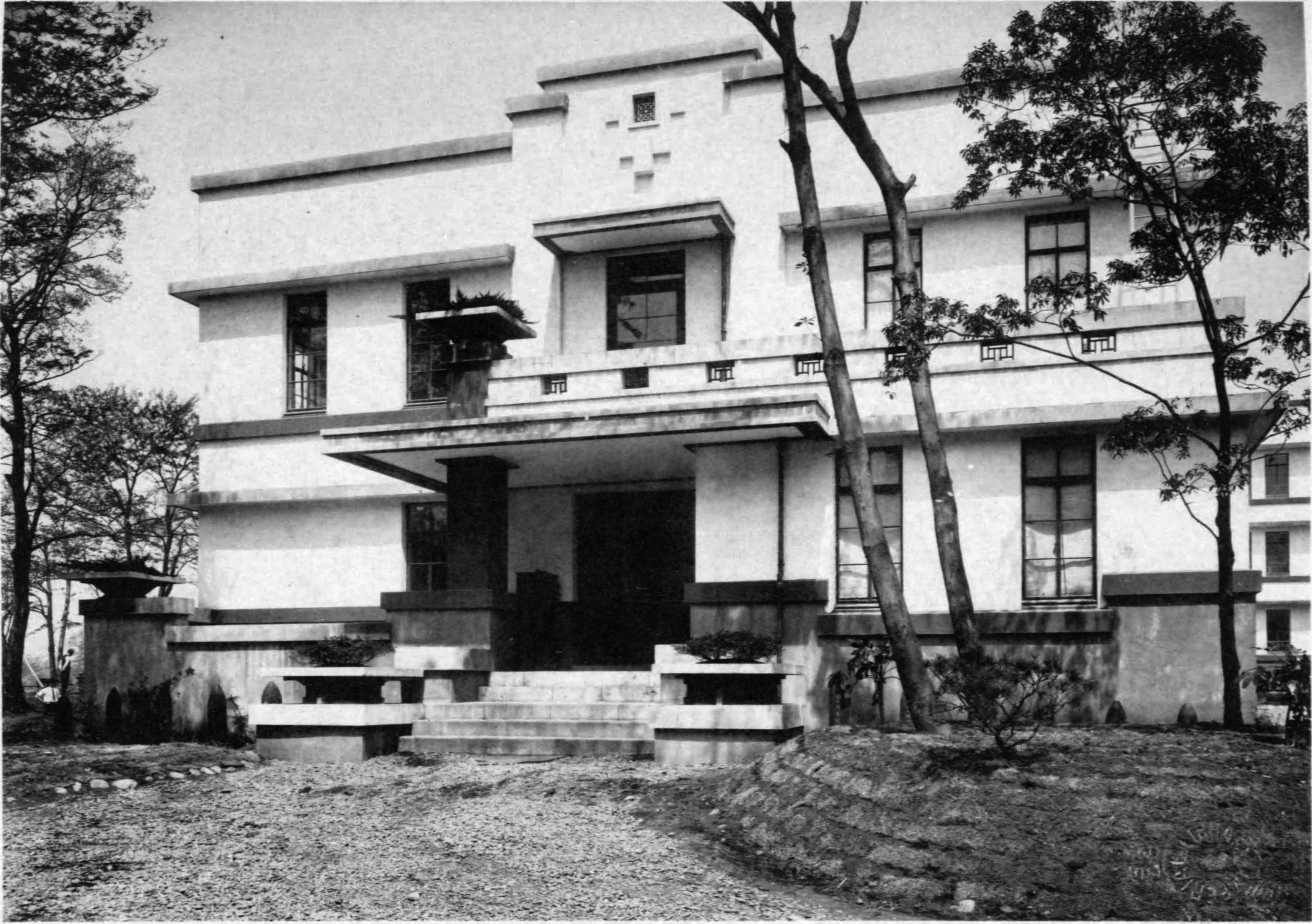 Library and Museum, Imperial Japanese Army Medical School